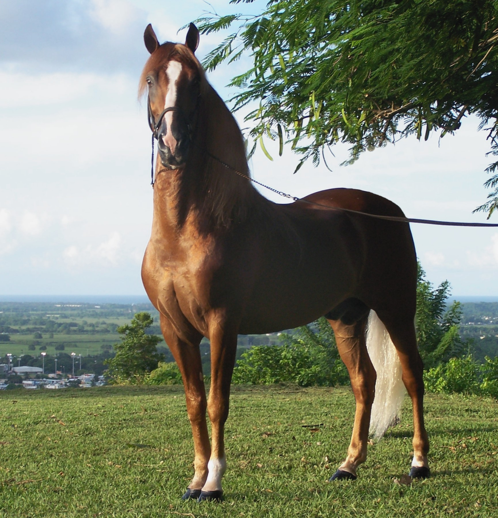 This is a Picture of a Puerto Rican Paso Horse taken in Carolina, Puerto Rico. The stallion was an Island Bella Forma and Paso Fino champion called "Replica de Majestuoso," and has since passed. The coat color of this horse is chestnut with flaxen tail.